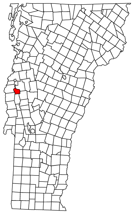 Map of Vermont towns with Weybridge highlighted